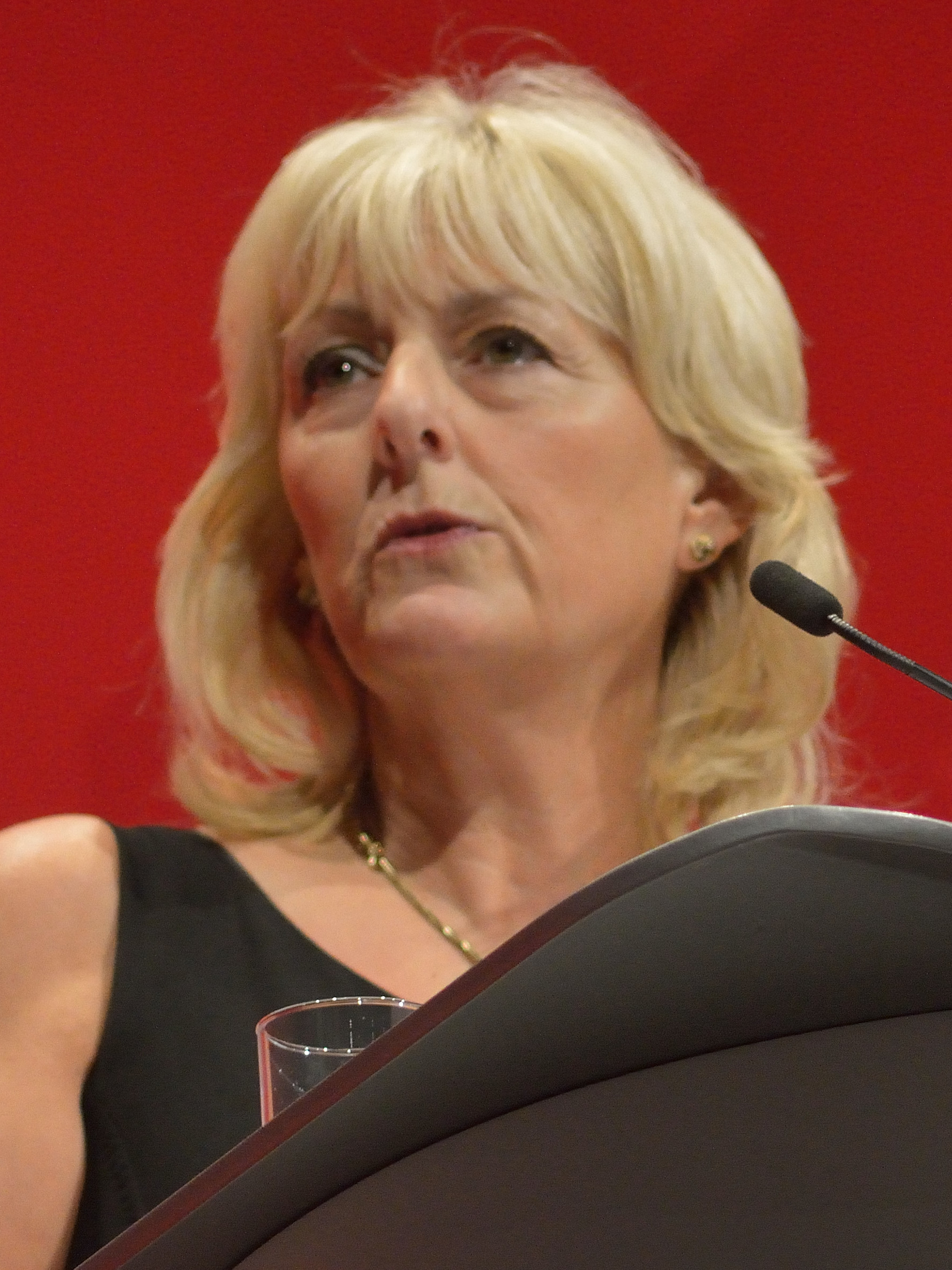 Jennie Formby, Labour NEC member and South East Regional Secretary of Unite the Union, speaking at the 2016 Labour Party Conference in Liverpool.[1]